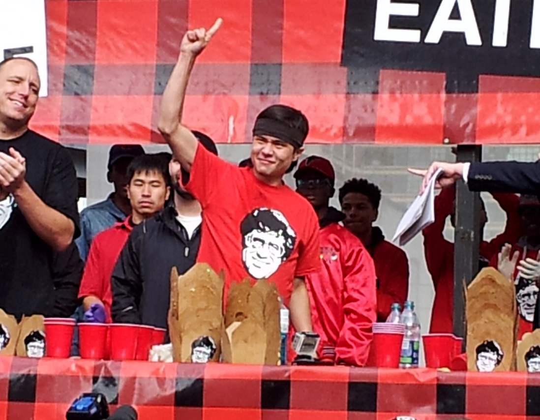 Matt Stonie winning the 2014 Poutine Eating World Championship in Toronto, Ontario.